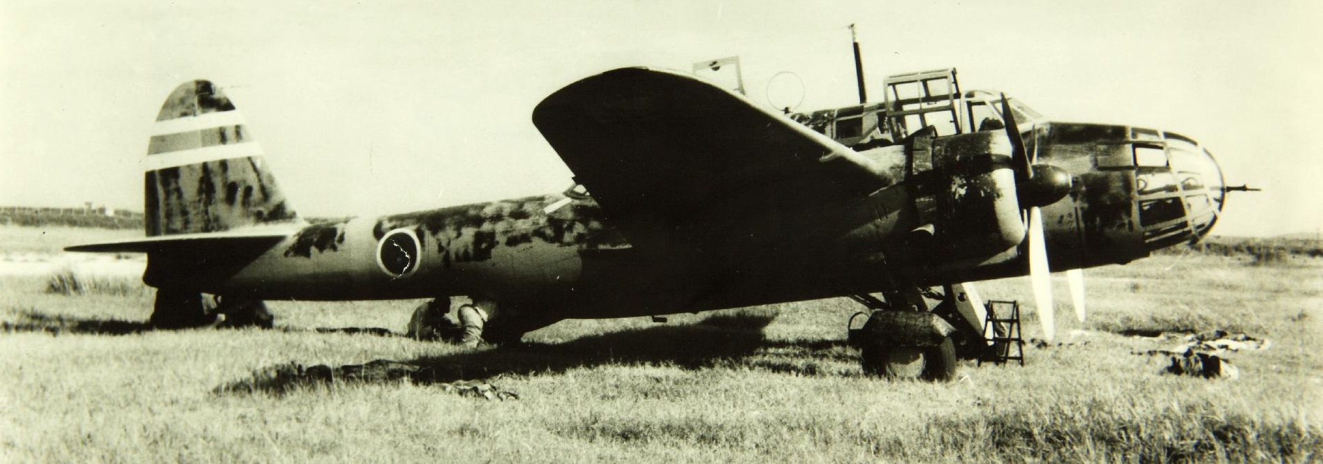 Kawasaki Ki-48 "Lily" light bomber.